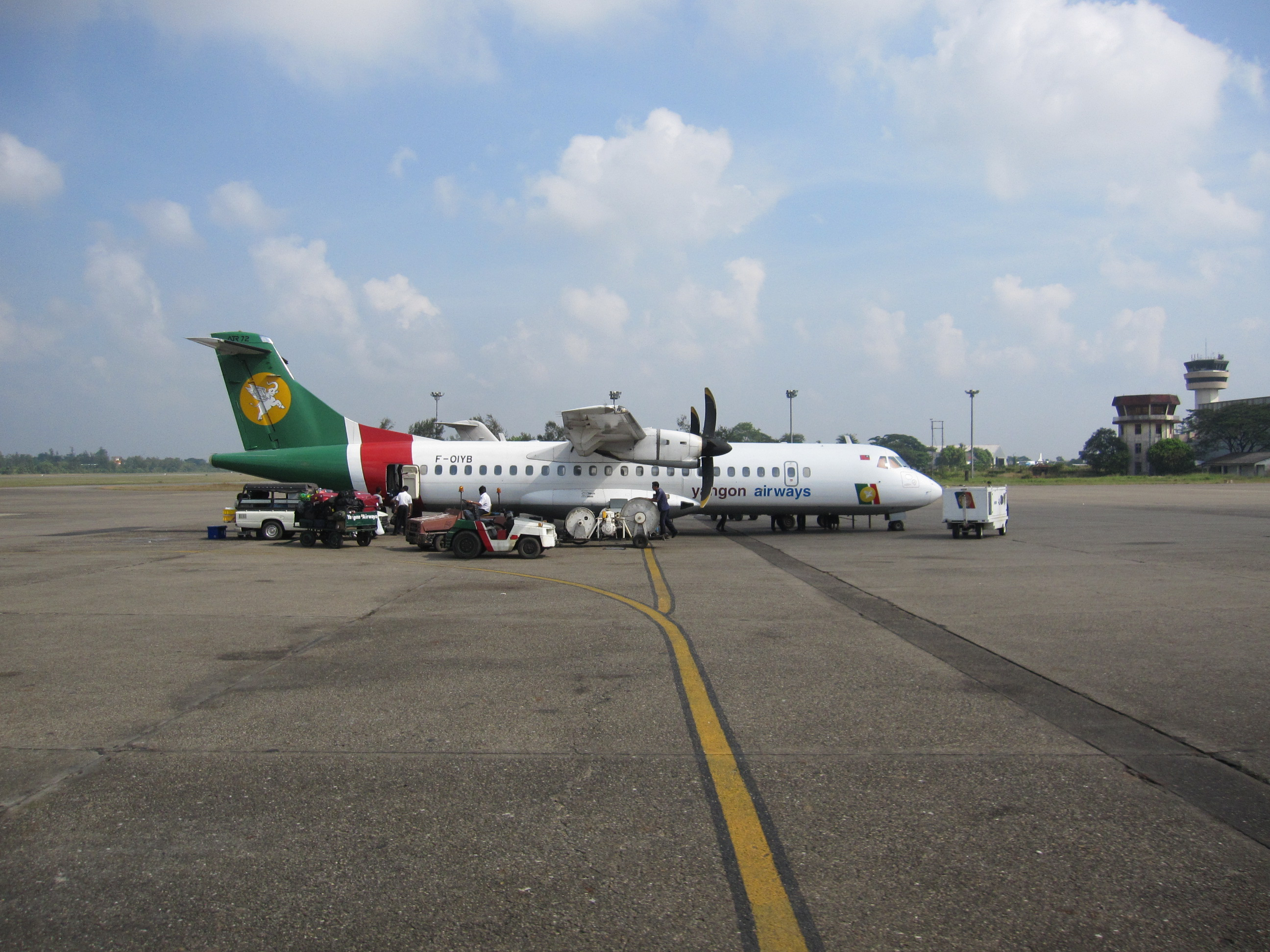 One of Yangon Airways' ATR 72-212 aircraft at Yangon Airport